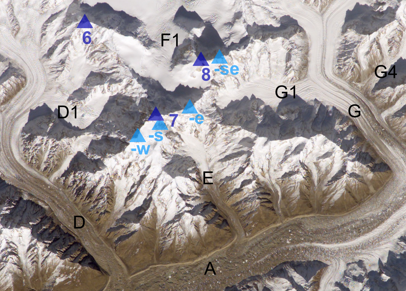 Hispar glacier (below) and Kunyang Chhish (centre left) Pumari Chhish (above)